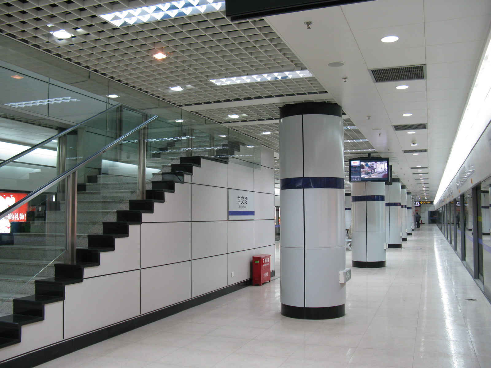 东安路站 4号线月台 Line 4 Platform of Dong'an Road Station